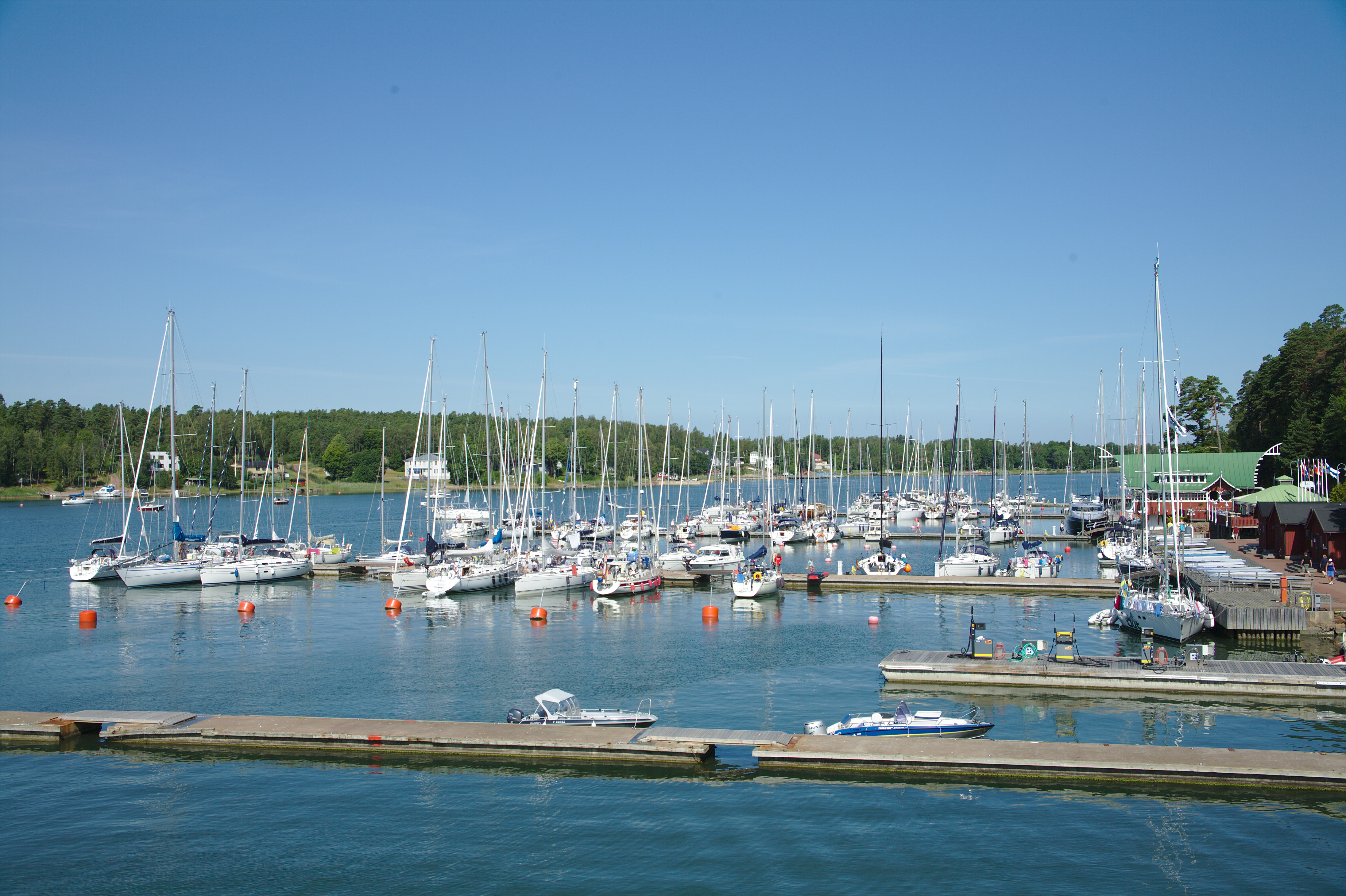 Svibyviken on Åland as seen from the museum ship Pommern. View over ÅSS' marina.